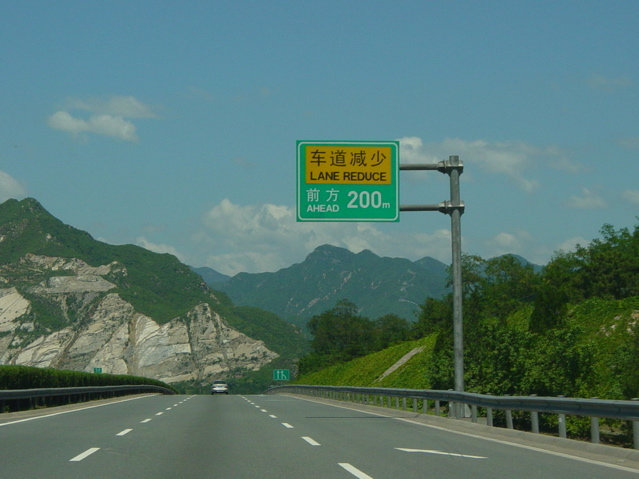 Badaling expressway approaching hilly area near Badaling.